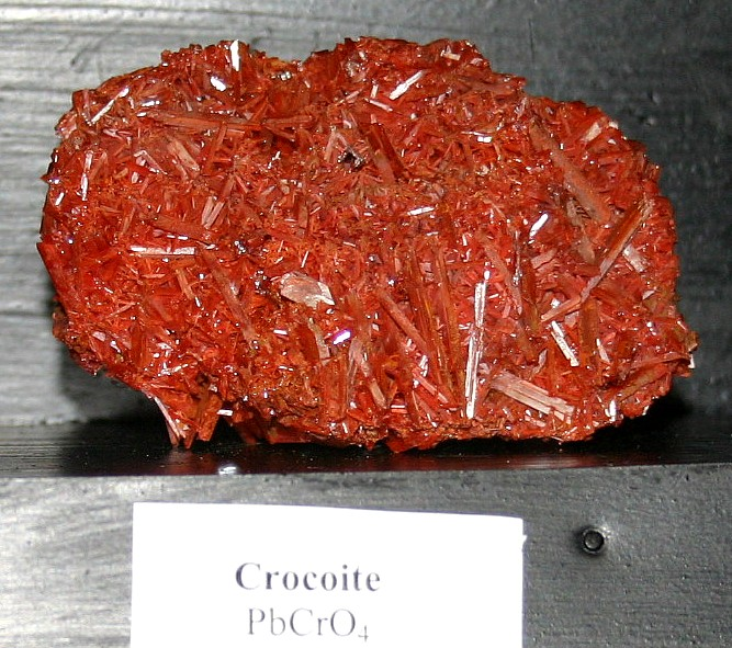 Source: Chris Ralph. This photo taken by Chris Ralph of [1], Photographer and author: photo taken by author.